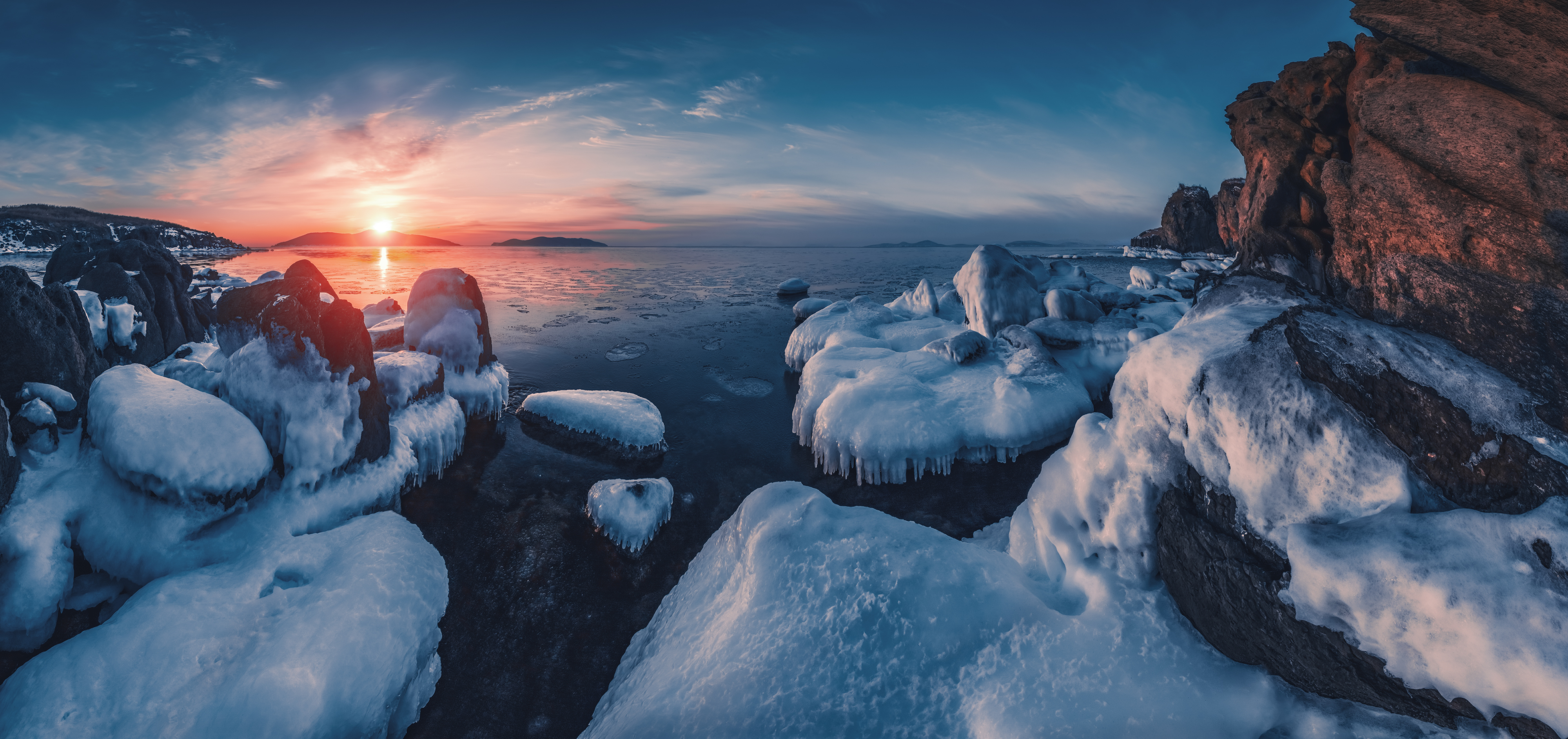 Sunrise on the Sea of Japan. The two islands visible from distance are Sibiryakov Island (right) and Antipenko Island (left). The photo was taken south of Slavyanka, Khasansky District of Primorsky Krai, Russia.